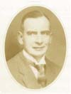 Photo of Sir Osborne Smith